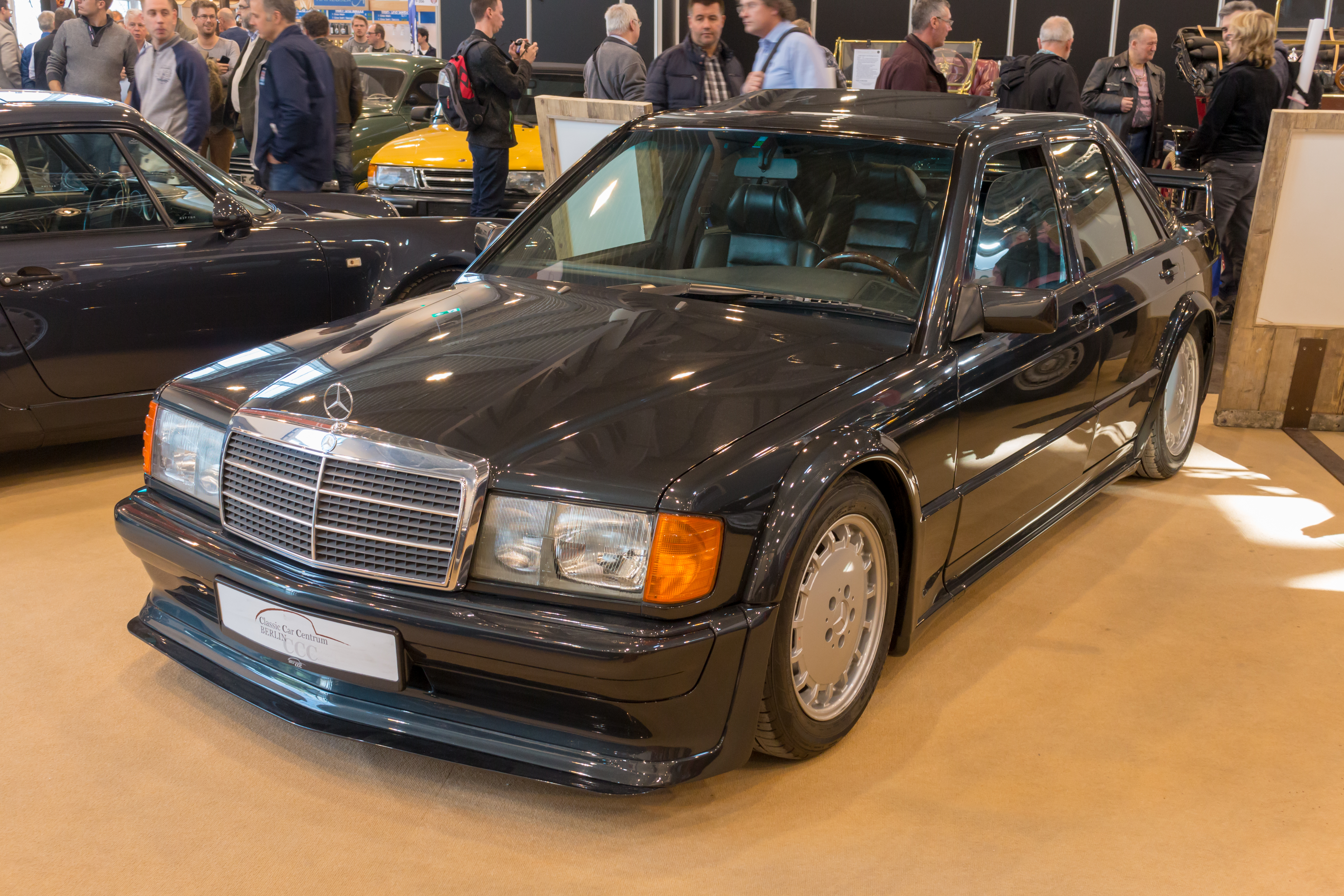 Techno Classica 2018, Essen